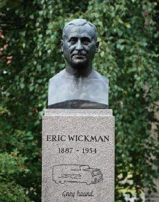 Bust of Eric Wickman (1887-1954), founder of the Greyhound Lines, Inc. Sculptor Arvid Backlund.